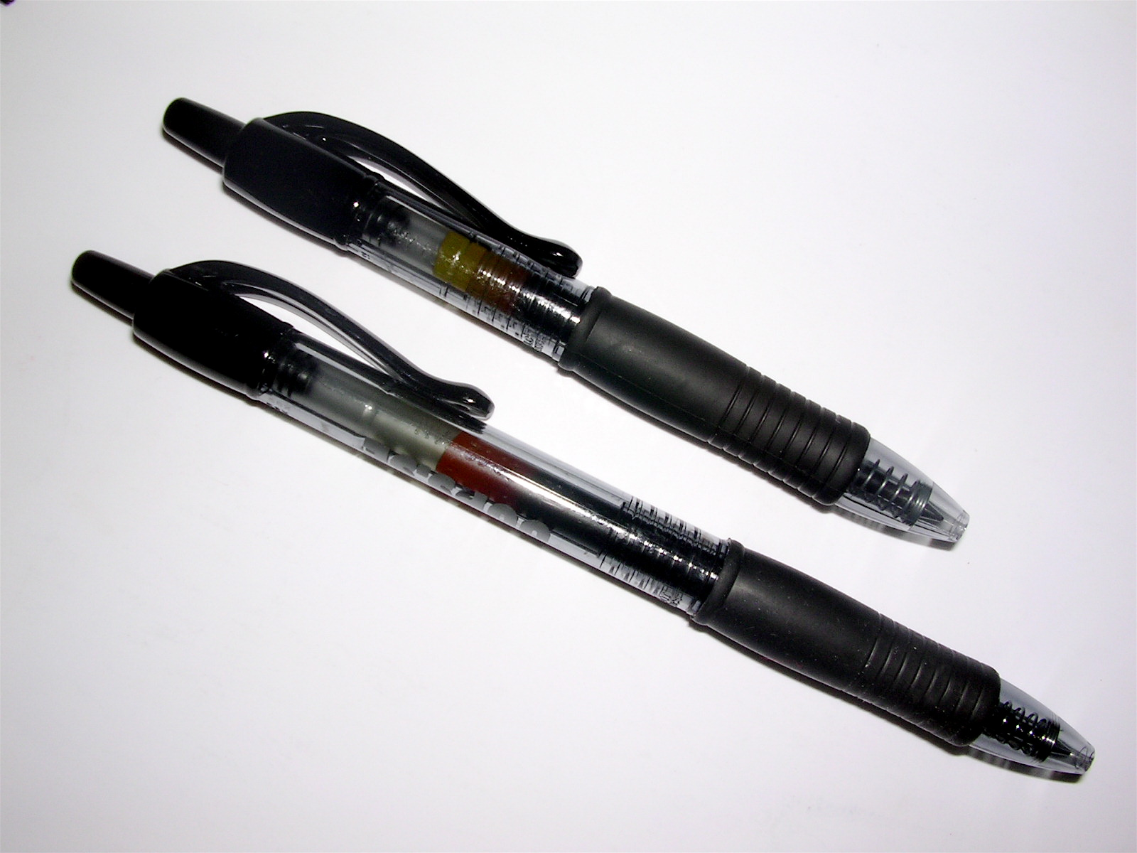 Pilot G-2 and Pilot G-2 XSPilot G-2 and the brand new Pilot G-2 XS (Pixie)